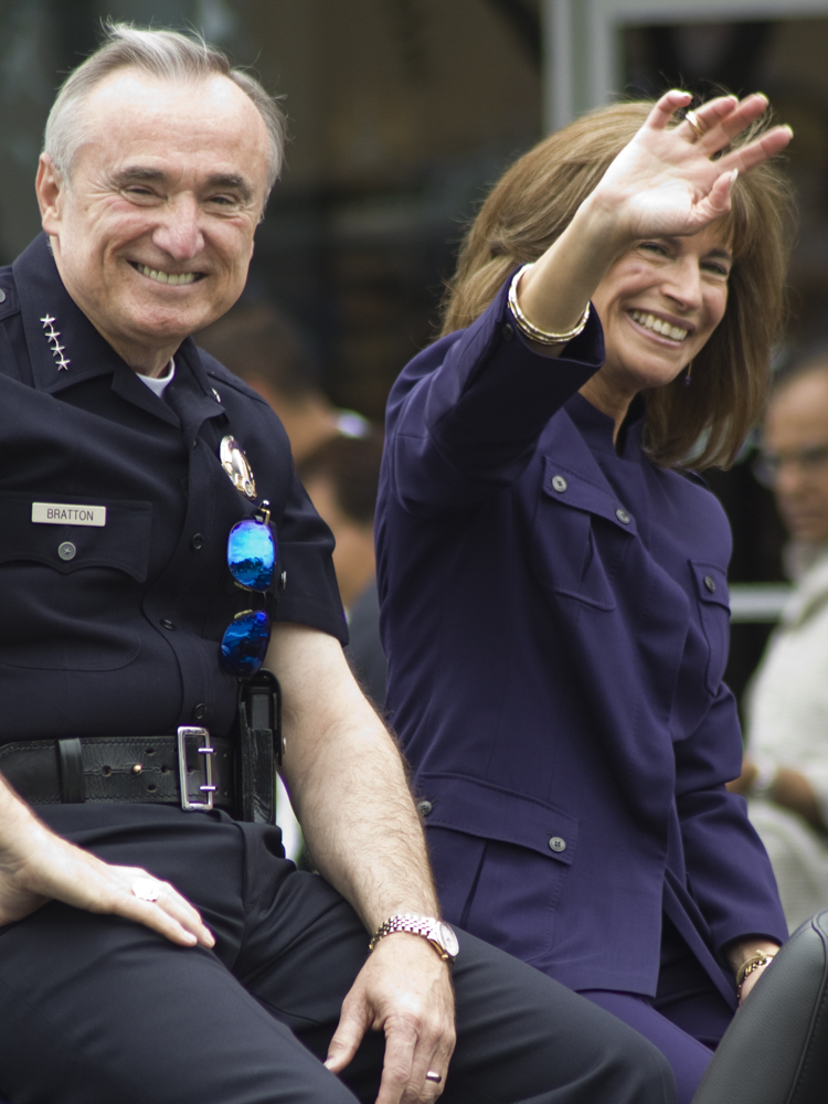 William J. Bratton and fourth wife, Rikki Klieman, at LA/Valley Pride